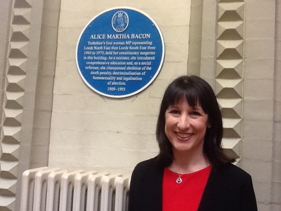 A plaque for Alice Martha Bacon unveiled at the Corn Exchange Leeds